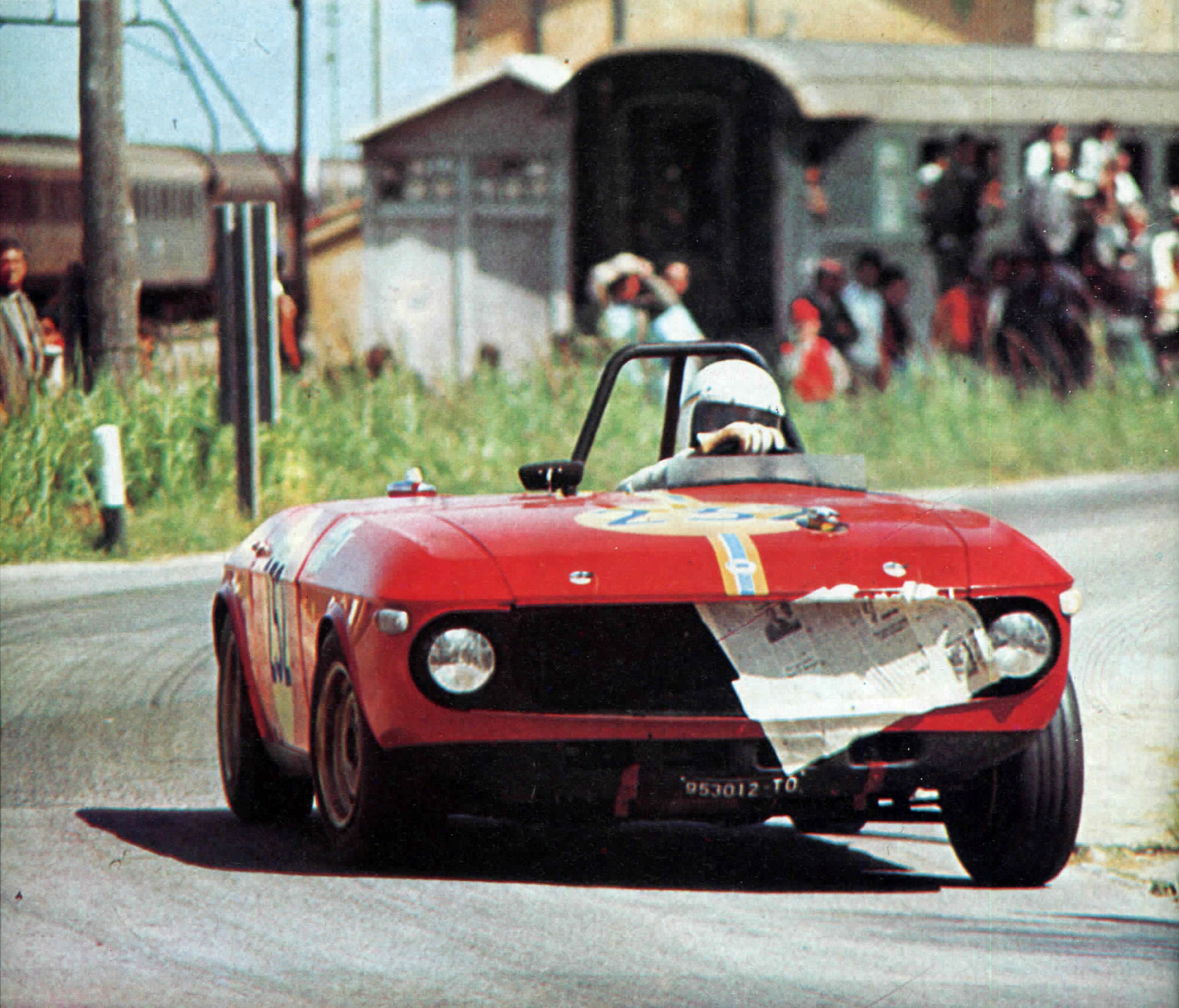 Province of Palermo (Sicily, Italy), "Piccolo Madonie" road circuit, May 4, 1969. Italian motor racing driver Claudio Maglioli on #232 Lancia F&M Special of Squadra Lancia HF at the 1969 Targa Florio. The "Fiorio & Maglioli" Special was a Fulvia Coupé HF 1.6, with V4/12° engine and dual overhead camshaft, transformed into racing barchetta by Lancia's driver and tester Claudio Maglioli, and racing team manager Cesare Fiorio. The Lancia F&M Special made its debut at the 53rd Targa Florio, entered in the Prototype 2-litre category, and driven by Claudio Maglioli and Raffaele "Lele" Pinto: the barchetta was forced to retire, due to an overheating caused by a newspaper that had gone to position itself in front of the radiator (in the picture).